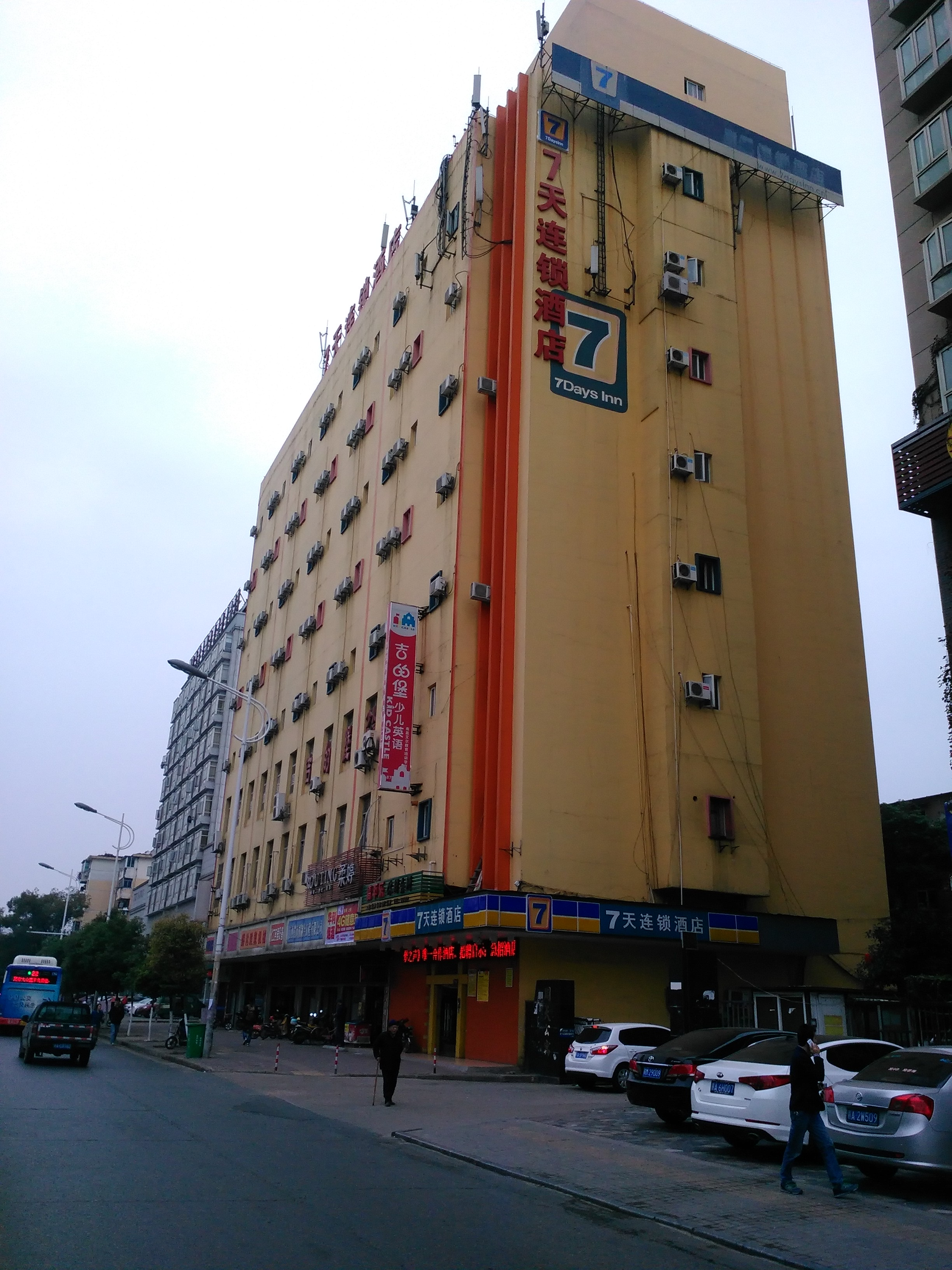 7 Days Inn - Nanchang